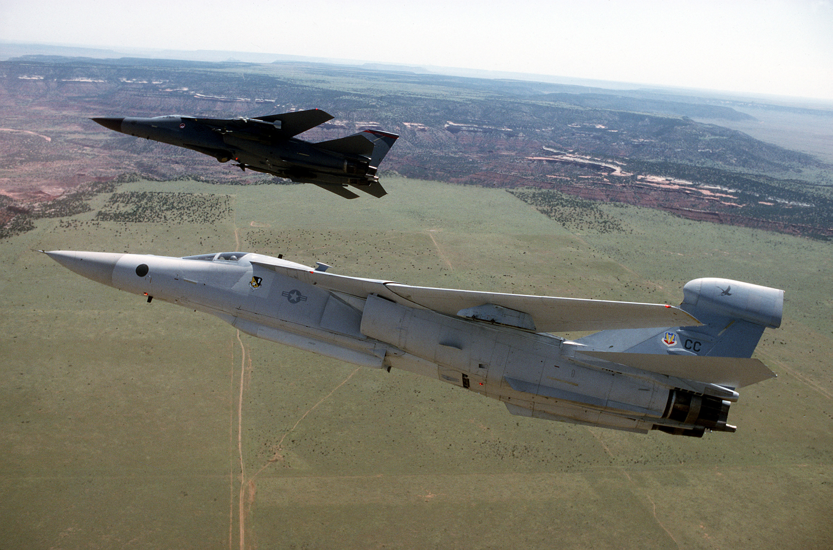 A low-altitude aerial view of an EF-111A Raven (foreground) and an F-111F flying from right to left. The aircraft belong to the 27th Fighter Wing, which transitioned from the F-111Ds to F-111Fs and added EF-111As. Location: CANNON AIR FORCE BASE, NEW MEXICO (NM) UNITED STATES OF AMERICA (USA) Camera Operator: MSGT. MICHAEL HAGGERTY